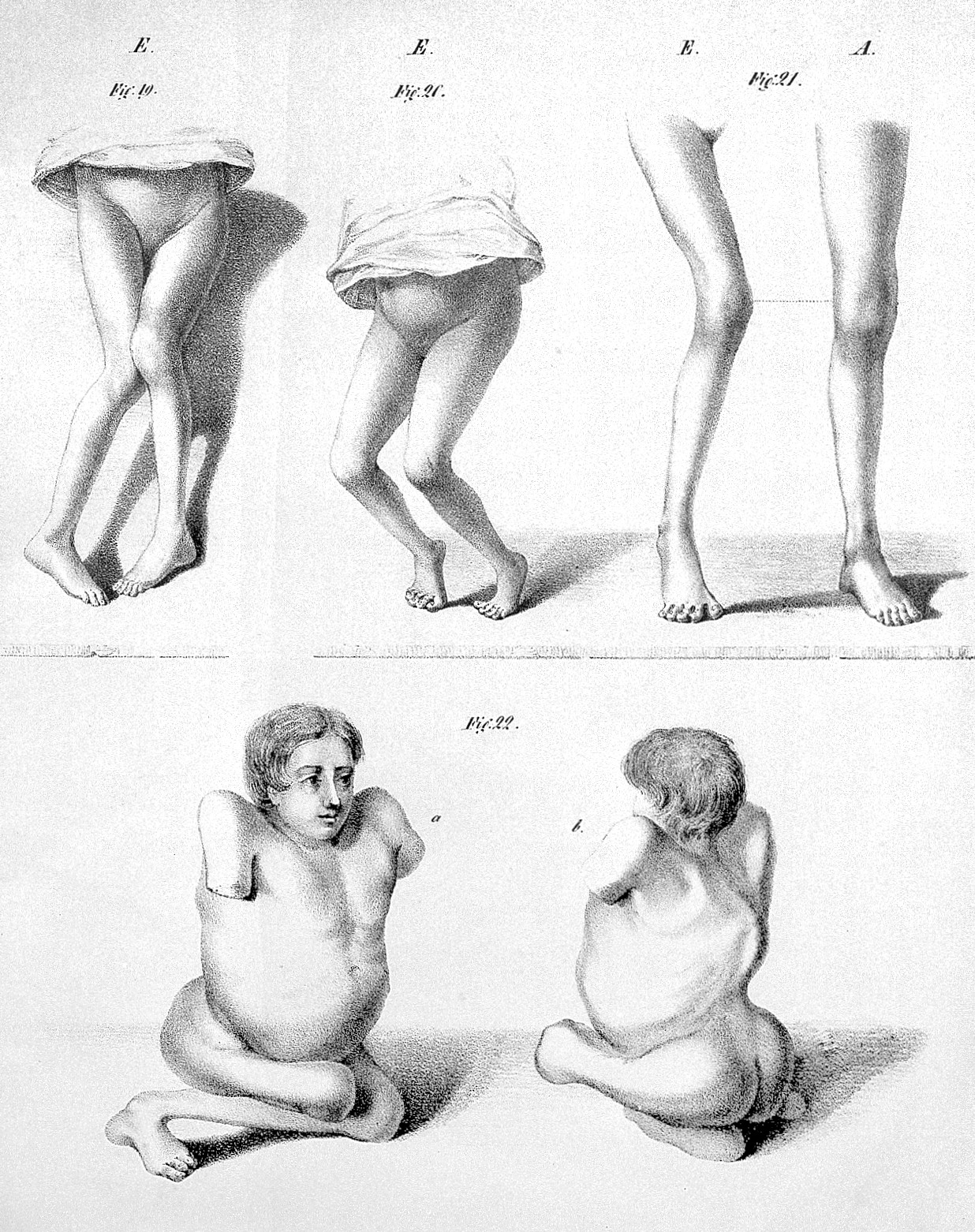 Poliomylitis. Rare Books Keywords: Jacob von Heine